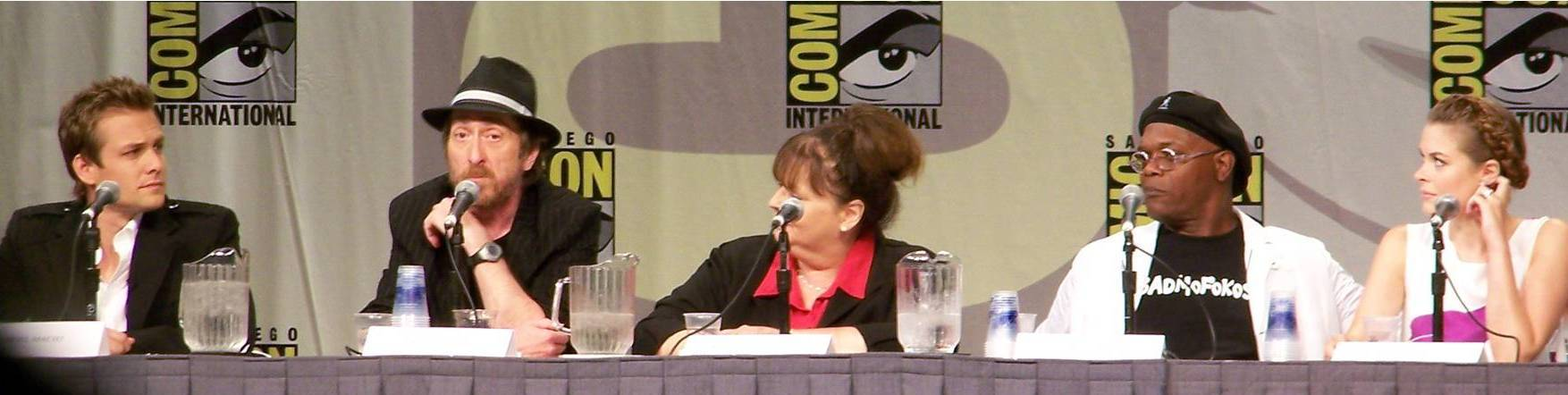 The panel for the 2008 film "The Spirit" at the 2008 Comic-Con convention in San Diego, California. From left to right: Gabriel Macht, Frank Miller, Deborah Del Prete, Samuel L. Jackson, and Jaime King